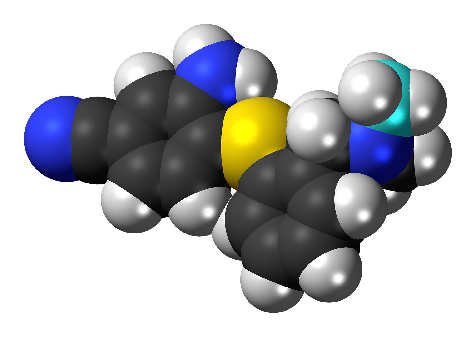 Space-filling model of the [C-11]DASB molecule, a compound used in PET scans. The radioactive carbon-11 atom is highlighted in cyan. Color code: Carbon, C: black Hydrogen, H: white Nitrogen, N: blue Sulfur, S: yellow Radioactive carbon, 11C: cyan